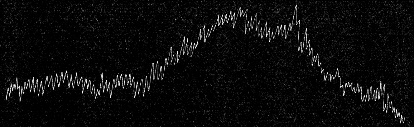 Pletismographic curve